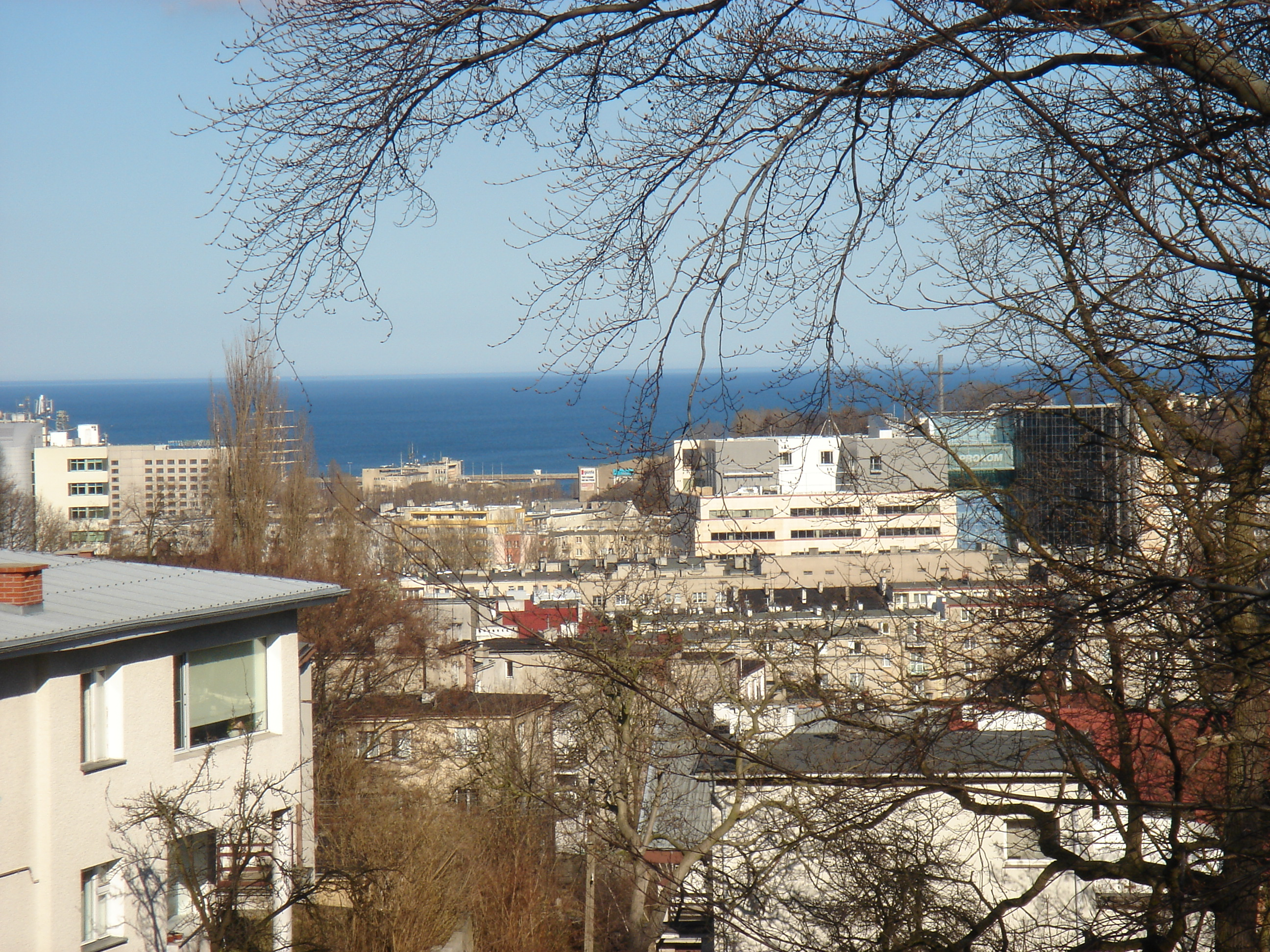 The overall view of Gdynia from a hill